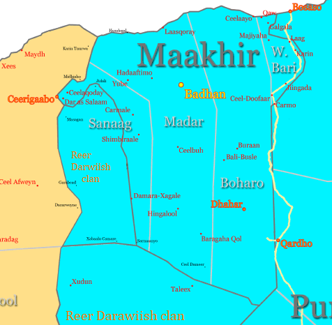 Map of Maakhir State of Somalia